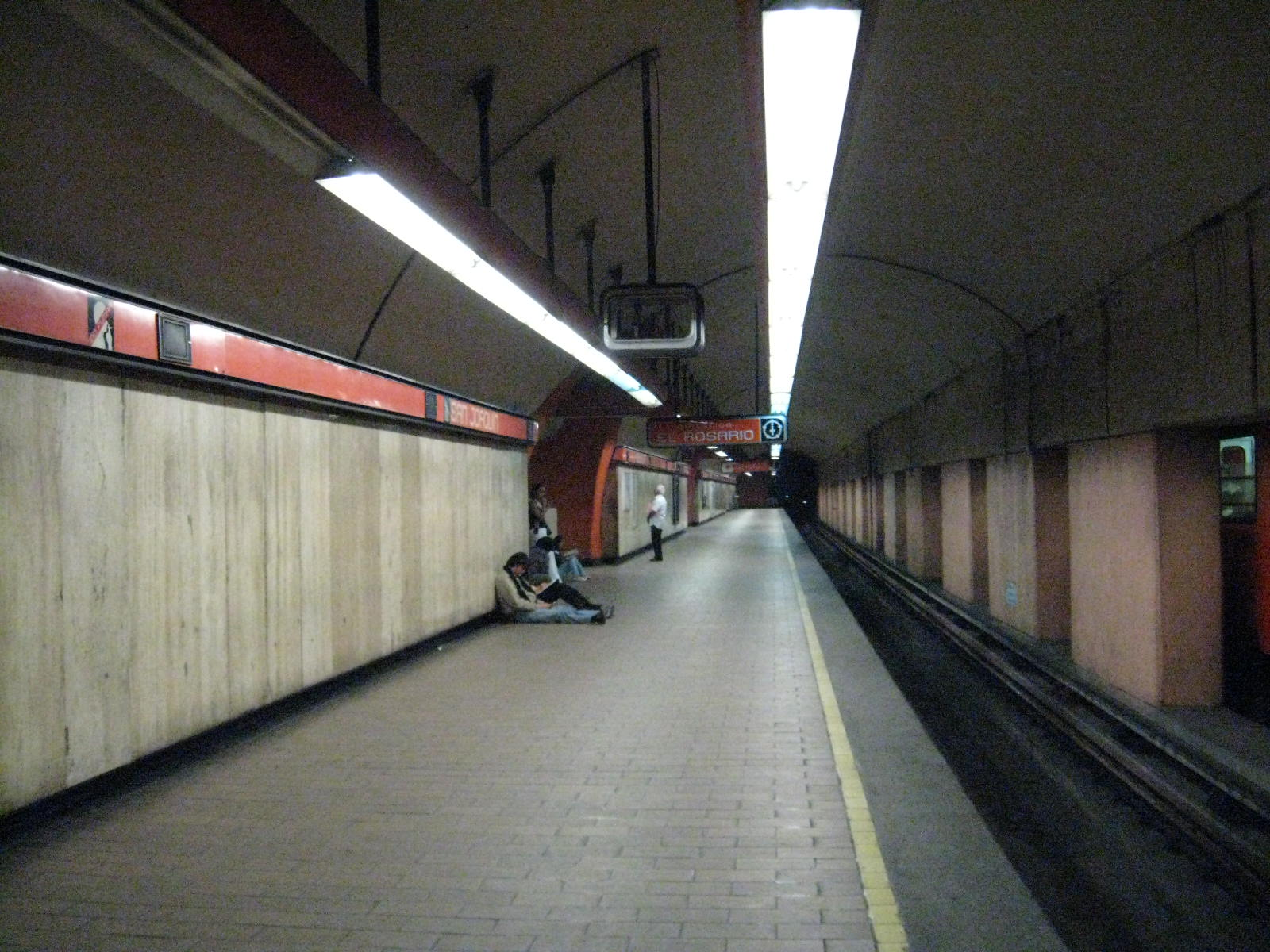 View of northbound platform of Metro station San Joaquin on Line 7 of the Mexico City Metro system